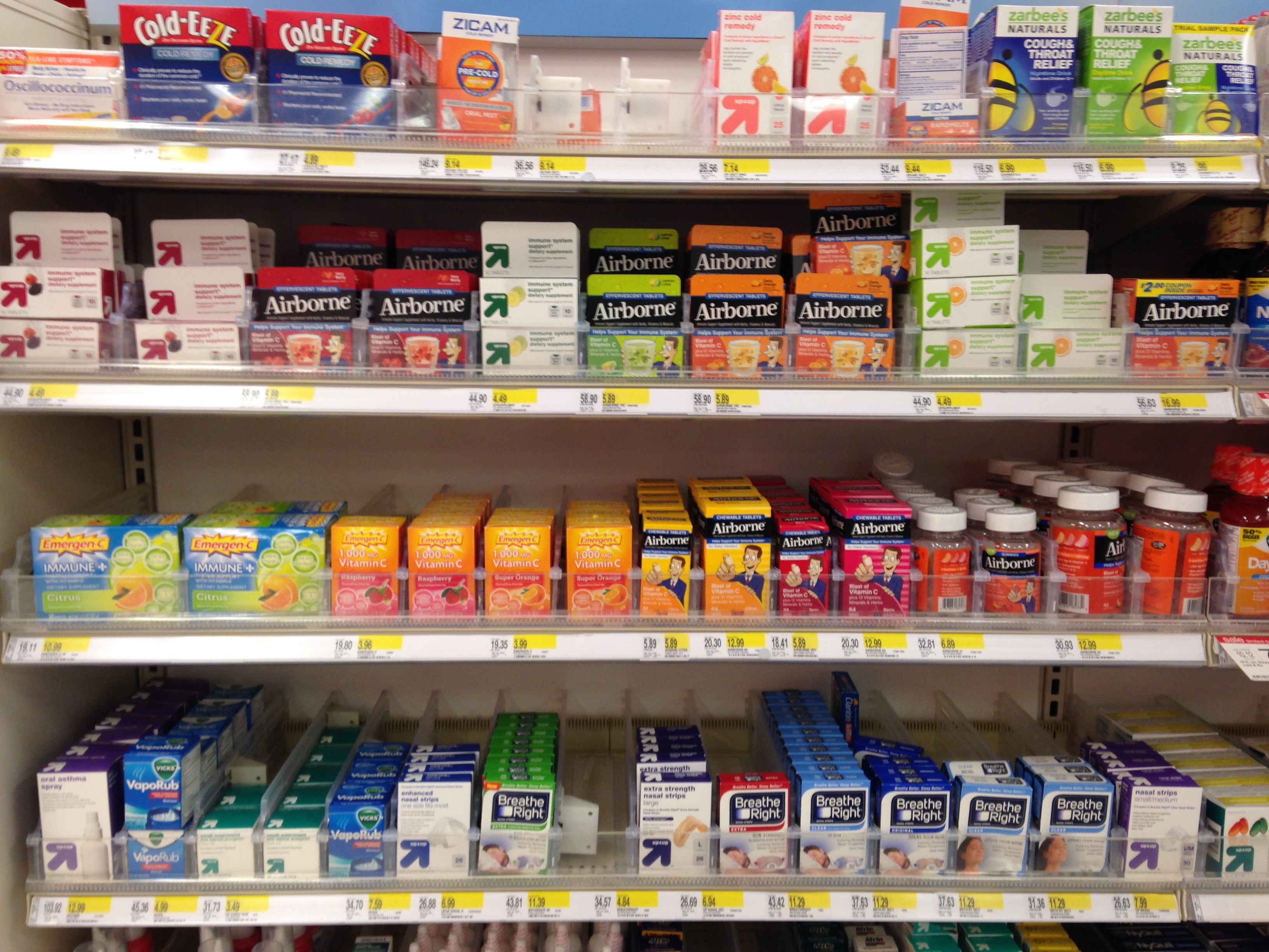 A cold medicine display at a local Target in New Hampshire